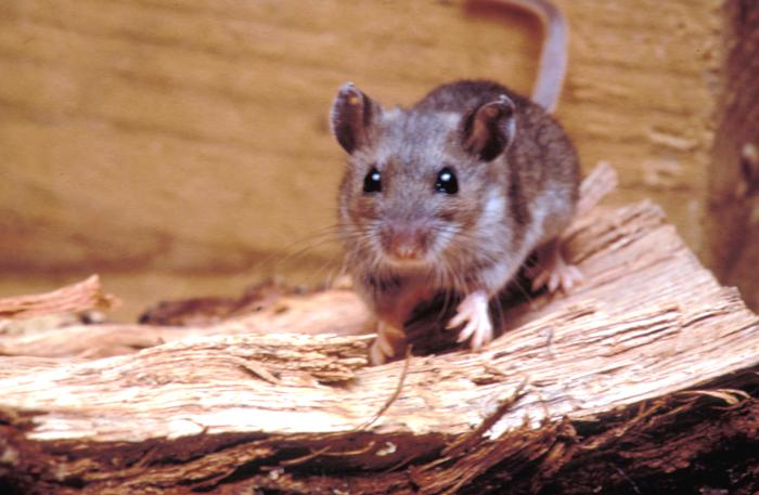 ID#: 8360 Description: This is a deer mouse, Peromyscus maniculatus, a hantavirus carrier that becomes a threat when it enters human habitation in rural and suburban areas. Hantavirus pulmonary syndrome (HPS) is a deadly disease transmitted by infected rodents through urine, droppings, or saliva. Humans can contract the disease when they breathe in aerosolized virus. HPS was first recognized in 1993, and has since been identified throughout the United States. Although rare, HPS is potentially deadly. Rodent control in and around the home remains the primary strategy for preventing hantavirus infection. All hantaviruses known to cause hantavirus pulmonary syndrome (HPS) are carried by New World rats and mice of the family Muridae, subfamily Sigmodontinae, which contains at least 430 species that are widespread throughout North and South America. There are several other ways rodents may spread hantavirus to people: - If a rodent with the virus bites someone, the virus may be spread to that person, however, this type of transmission is rare. - Researchers believe that people may be able to get the virus if they touch something that has been contaminated with rodent urine, droppings, or saliva, and then touch their nose or mouth. - Researchers also suspect people can become sick if they eat food contaminated by urine, droppings, or saliva from an infected rodent. Content Providers(s): CDC/ James Gathany Photo Credit: James Gathany